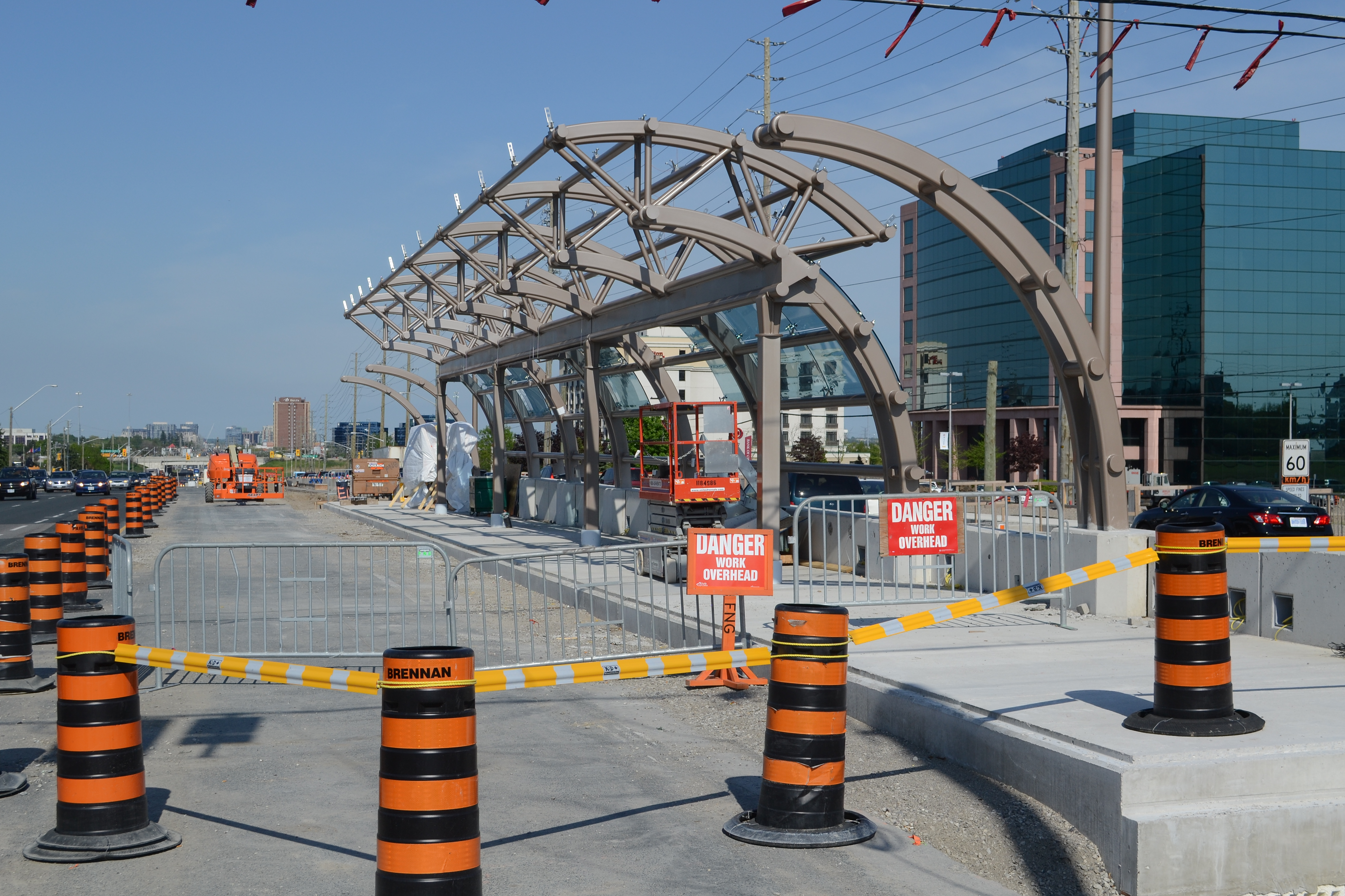 VIVA Shelter Construction at Leslie